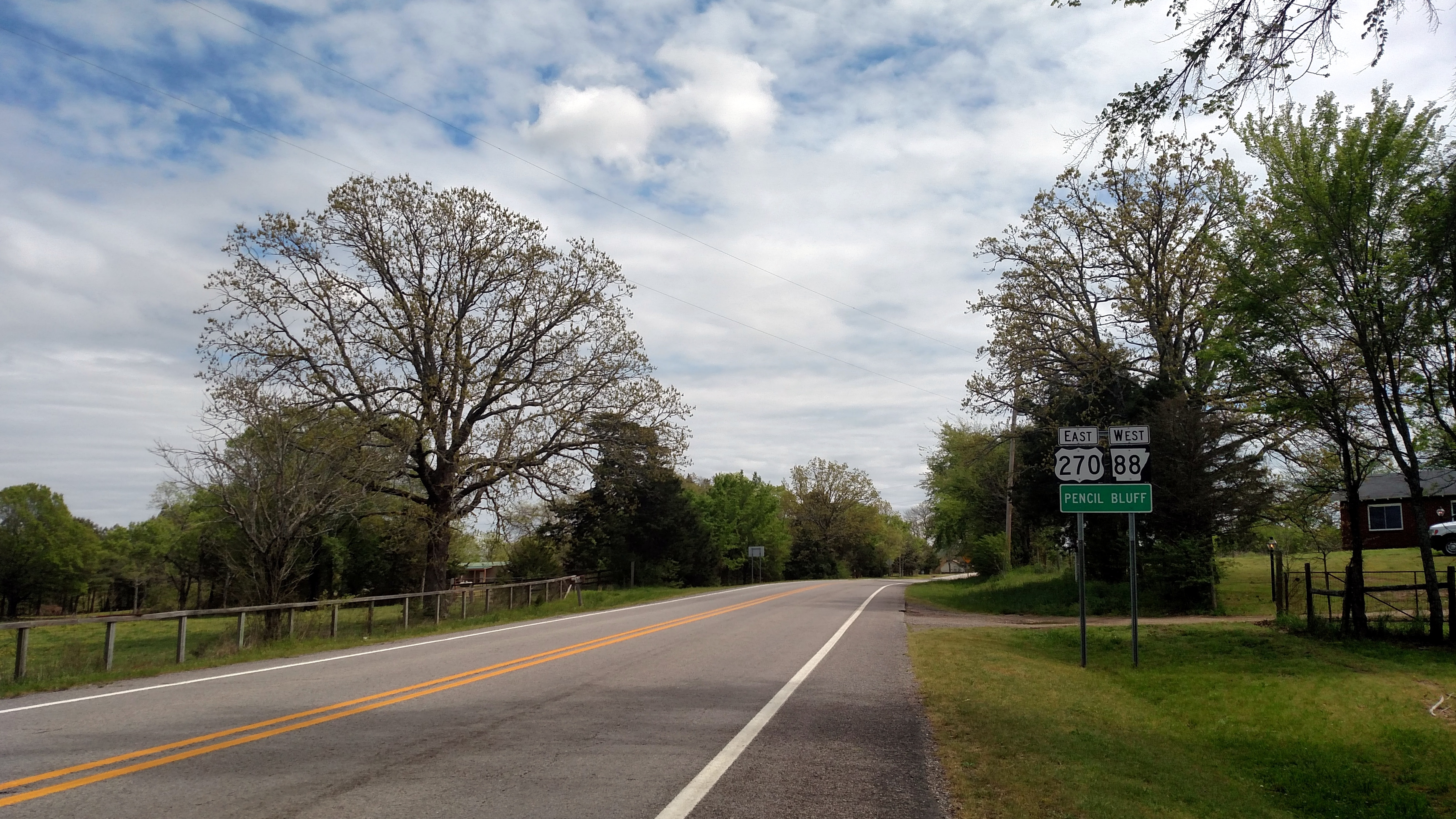 US 270 and Highway 88 enter Pencil Bluff, AR from the west